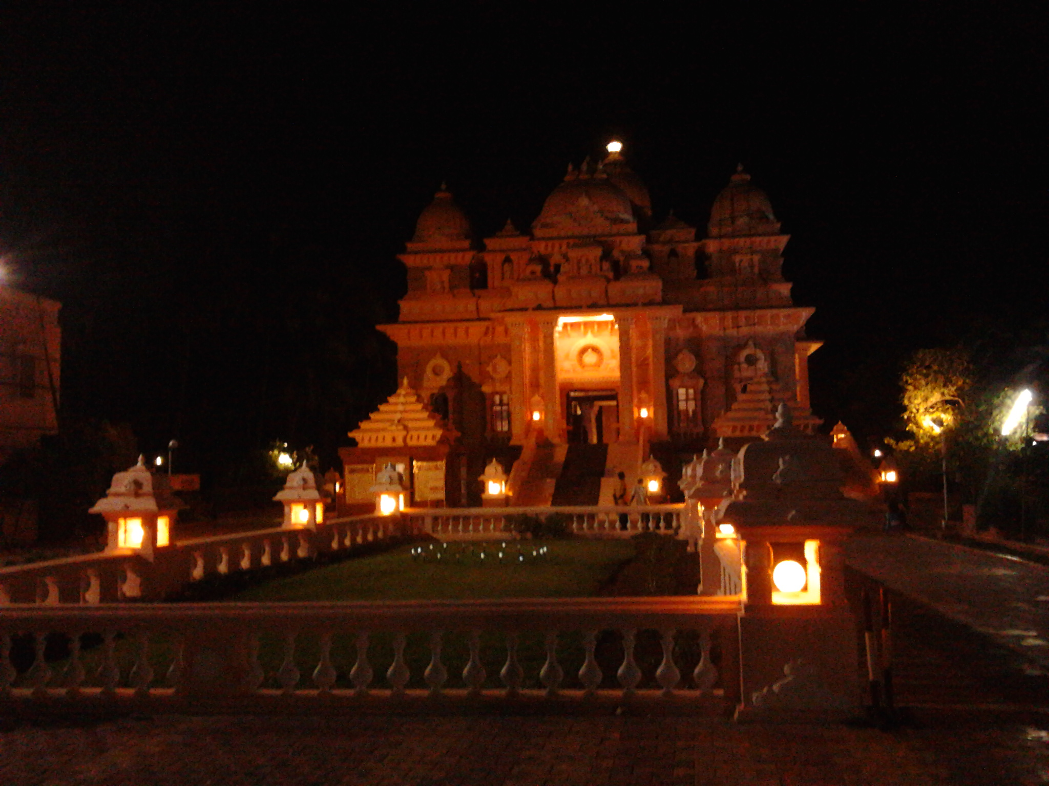 Photoed using Samsung Wave 525.